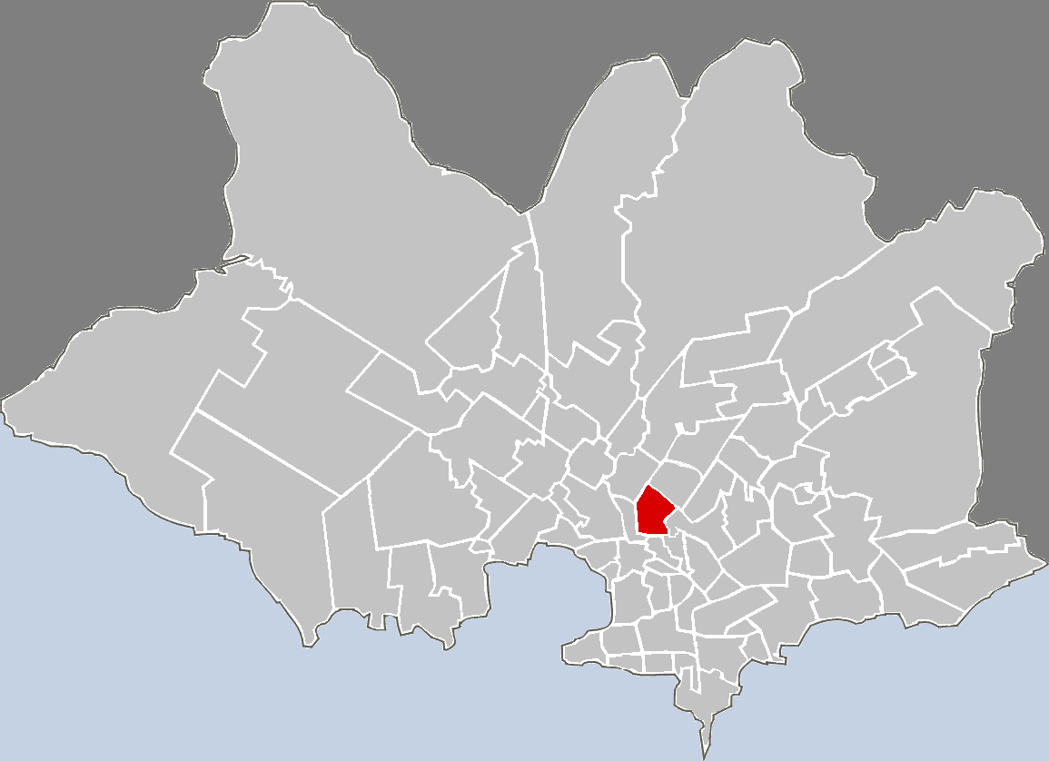 Map highlighting the given barrio in Montevideo.